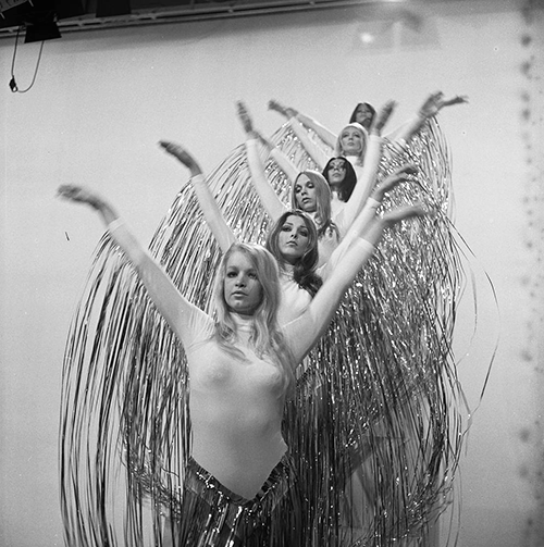 Pan's People performing in TopPop Special (Dutch TV). Recorded 16 April 1971. Broadcast 21 May & 8 June 1971. Dancers from front: Babs Lord, Louise Clarke, Flick Colby, Ruth Pearson, Andi Rutherford, Dee Dee Wilde